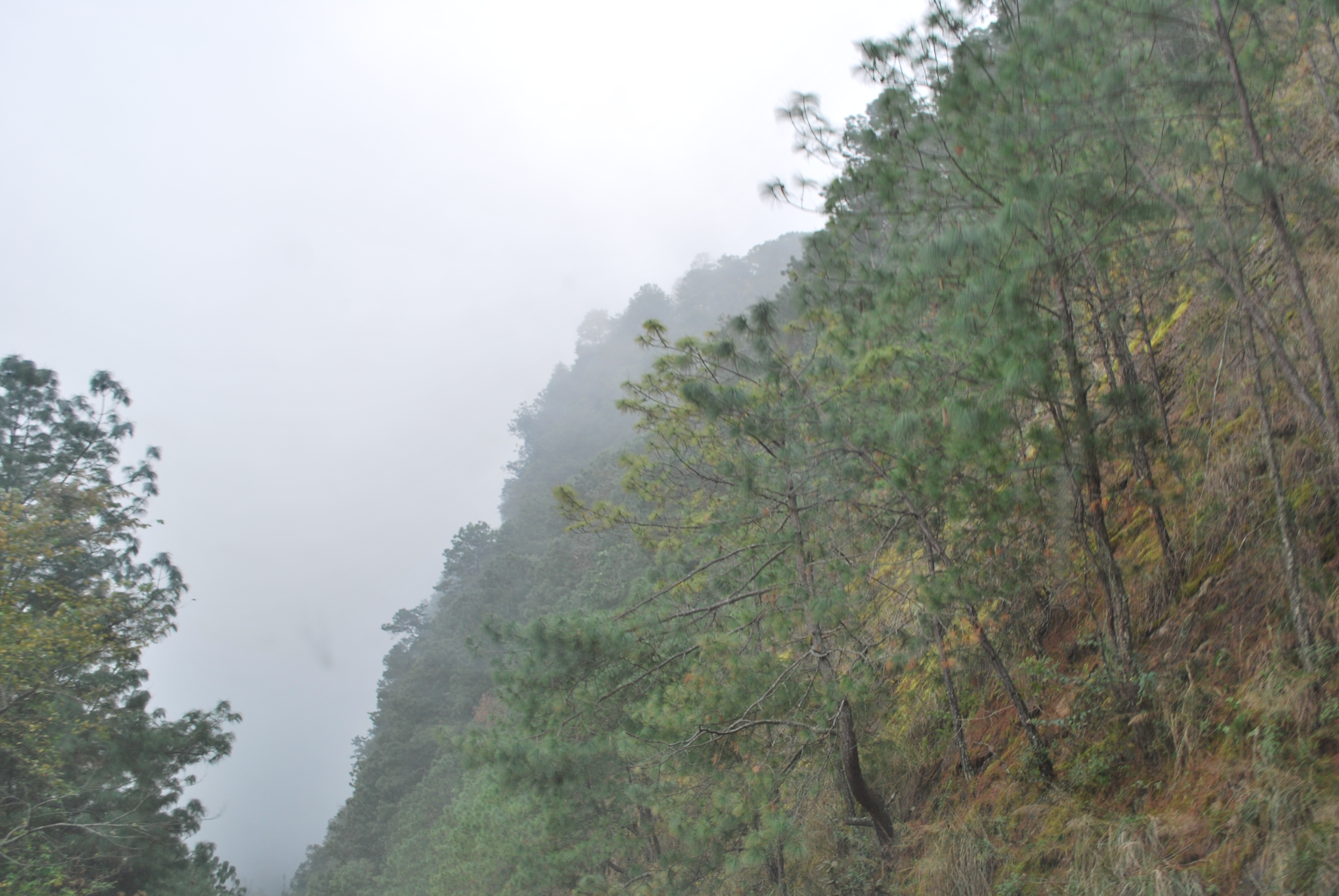 The Sierra Norte de Puebla, with Sierra Madre Oriental pine-oak forests vegetation. Scenery on Highway 106 in the municipality of Pahuatlán del Valle, Puebla state, México.